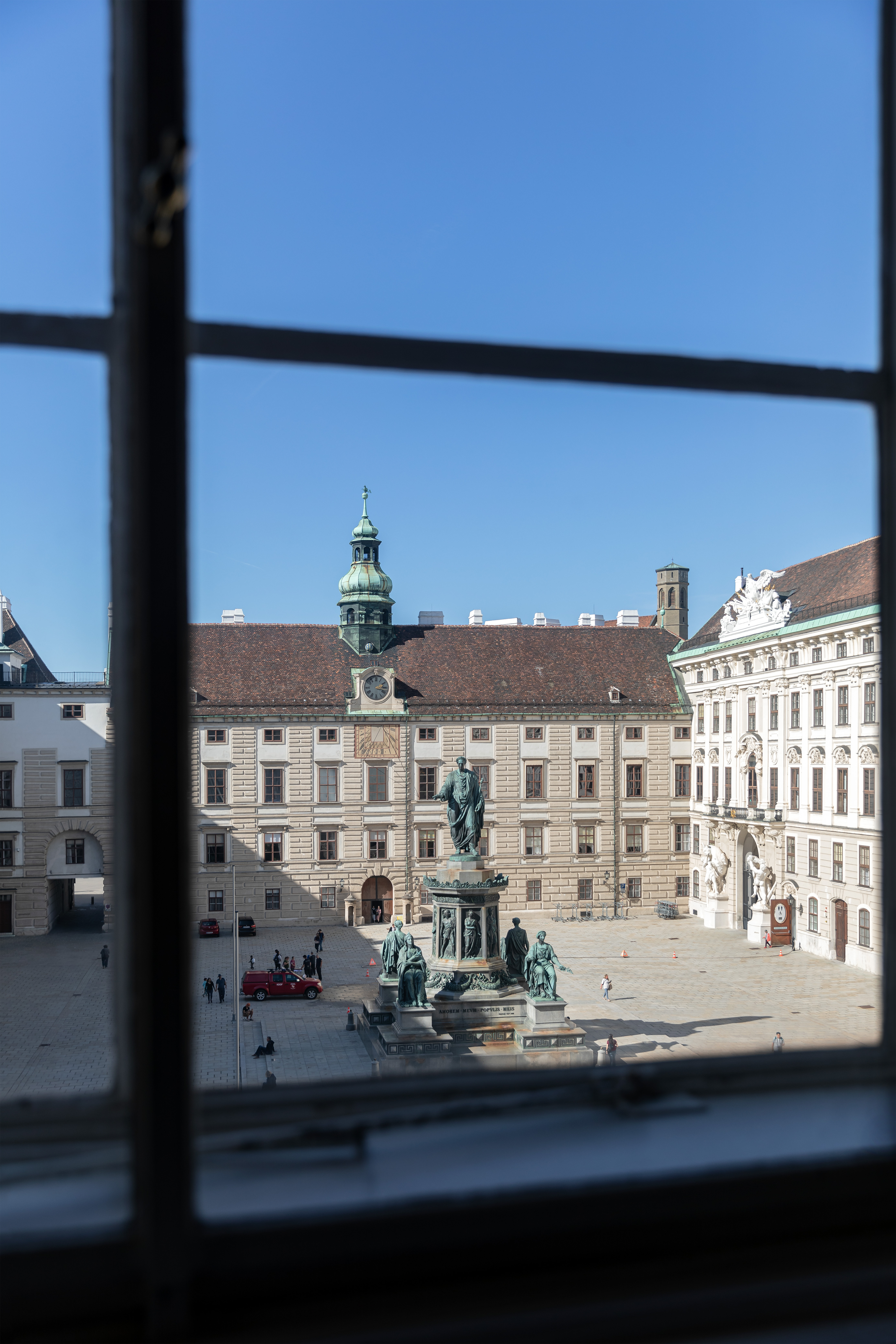 Emperor Francis I monument at Hofburg in Vienna, Austria; seen from a window of his old workspace.